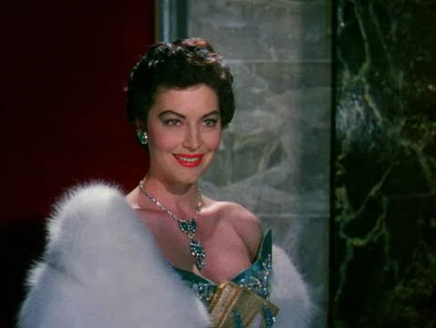 Screenshot of Ava Gardner from the trailer for the film The barefoot contessa.